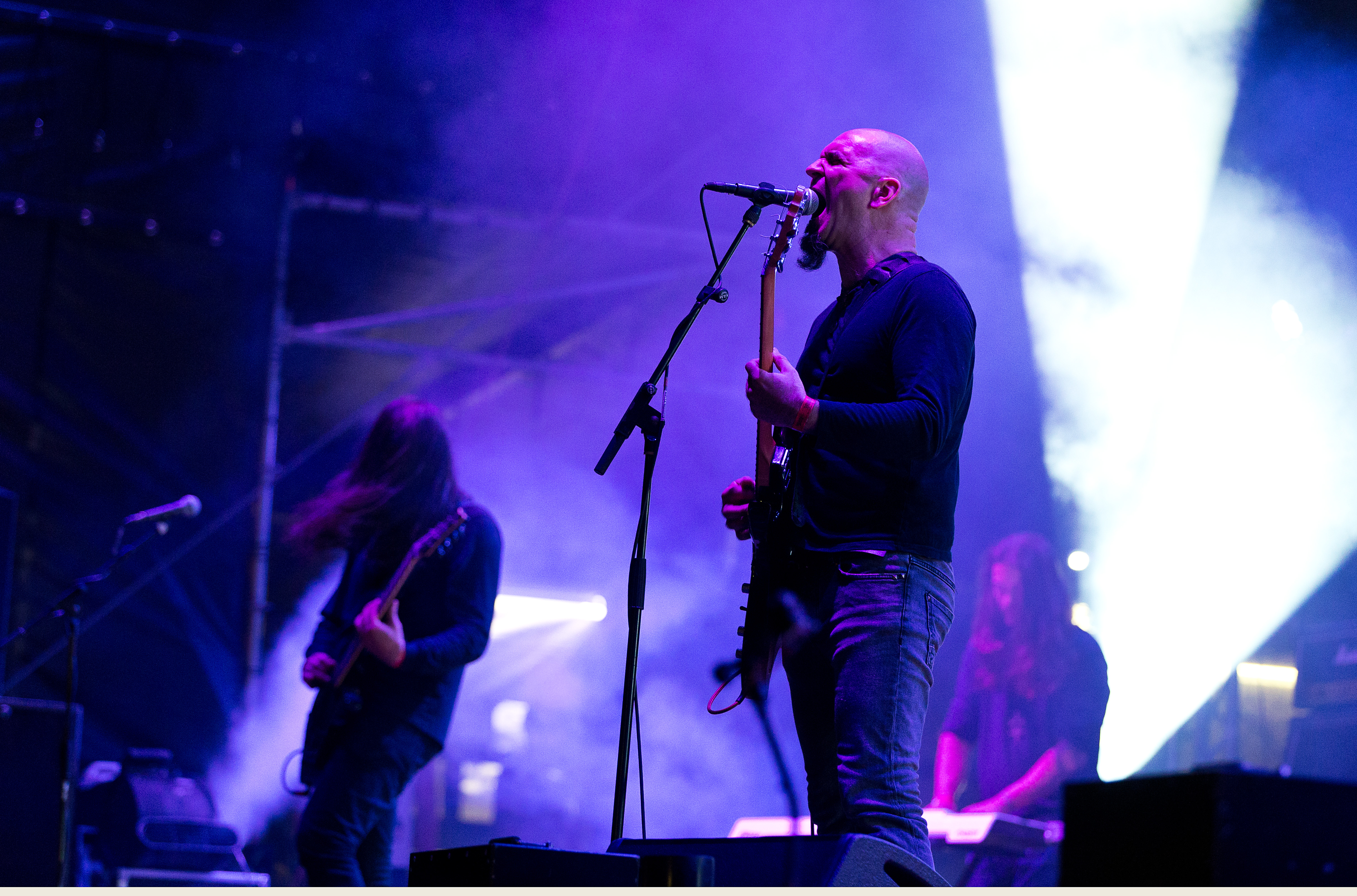 The German extreme metal band The Ruins of Beverast at the Party.San Open Air 2015 in Obermehler-Schlotheim/Germany.